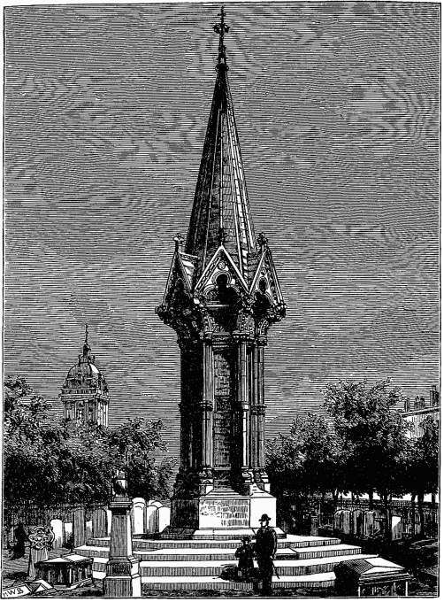 The Martyrs' Memorial in the churchyard of St John the Evangelist Church, Stratford, Essex, commemorates the 13 Protestants burned at the stake nearby in 1556, and others persecuted for their faith during the reign of Queen Mary I. Designed by J. Newman, and constructed by H. Johnson and Co, it was unveiled by Lord Shaftesbury on 2 August 1879.